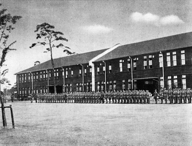 Kumagaya Army Aviation School